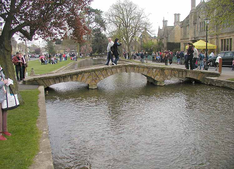 Footbridge over the River Windrush at Bourton-on-the-Water in the Gloucestershire Cotswolds